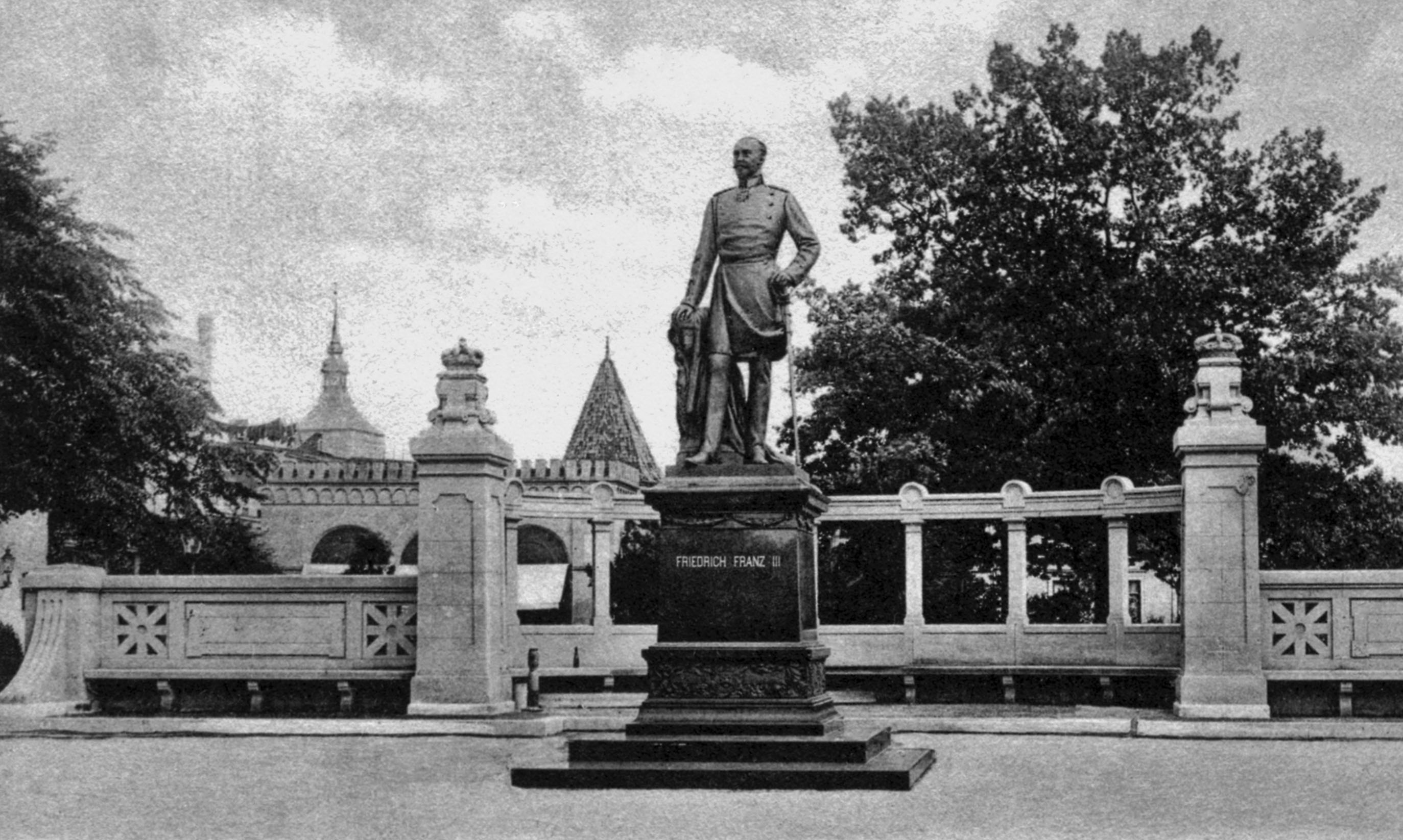 memorial to Grand Duke Friedrich Franz III. von Mecklenburg-Schwerin in Rostock, sculpted by Wilhelm Wandschneider, unveiled in 1901, destroyed in 1941/43